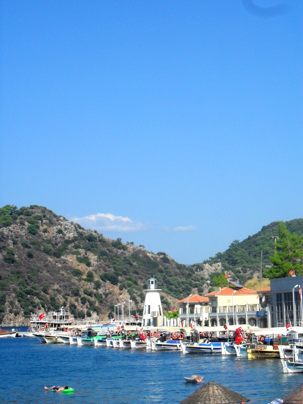 Turkey, İçmeler